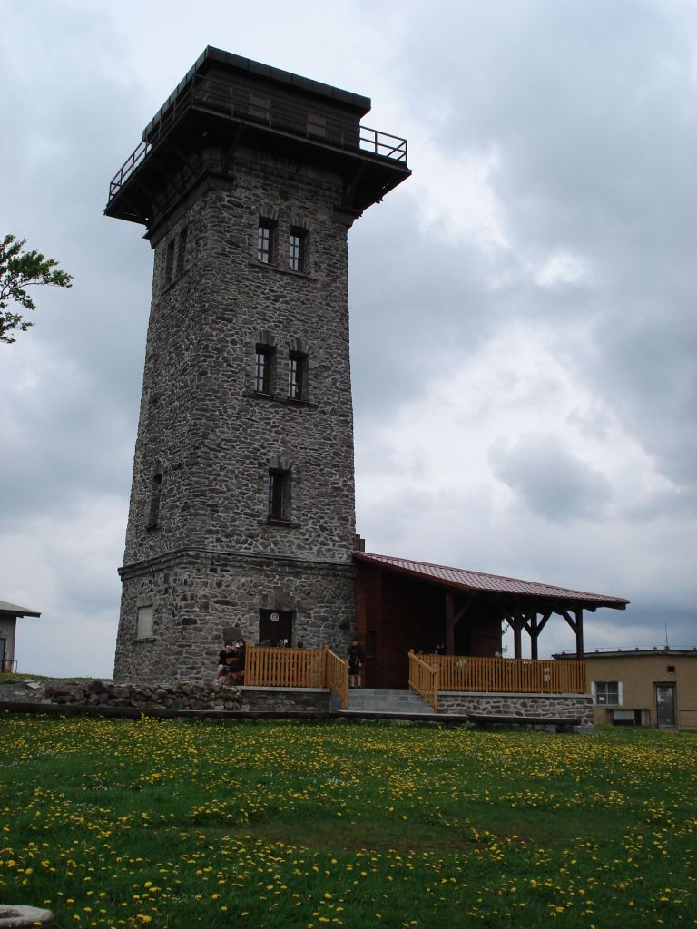 View of the observation tower on Čerchov (Plzeňský kraj, Czech Republic)